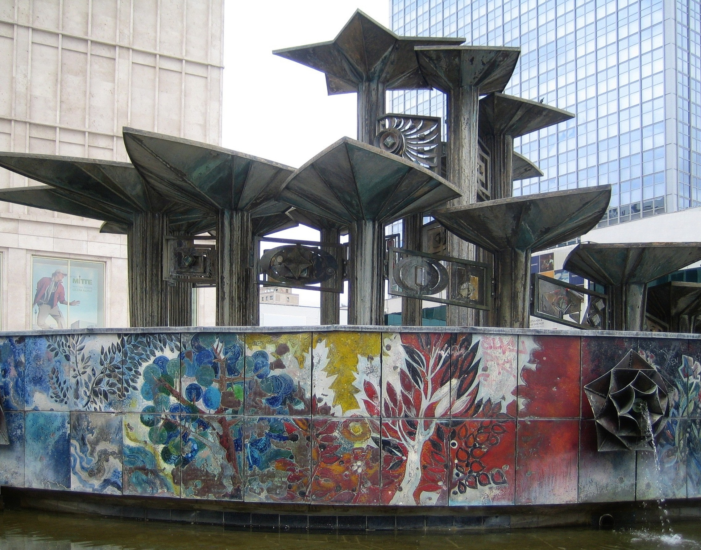 The "Brunnen der Völkerfreundschaft" ("Fountain for the friendship of nations") on Alexanderplatz in Berlin.